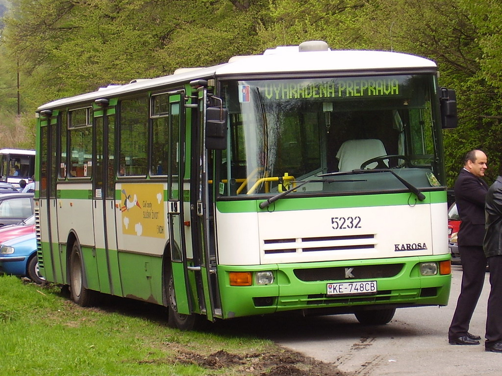 Karosa B932E by Sheep221